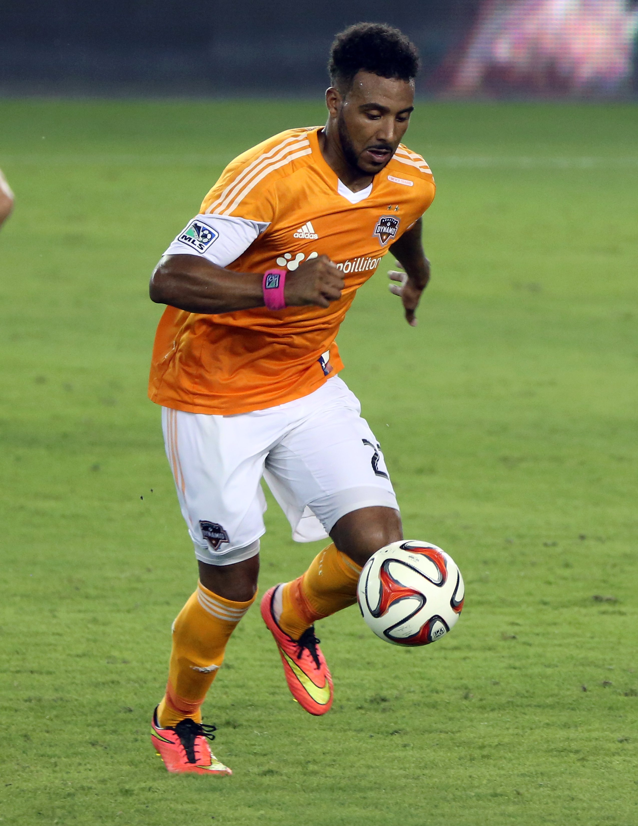 Giles Barnes, forward for the MLS team Houston Dynamo moves the ball during a match with Toronto FC on July 19, 2014